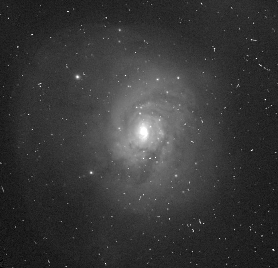 The central regions of the interacting galaxy NGC 34 have a spiral structure. Image from Hubble Legacy Archive data WFPC2 F606W filter.